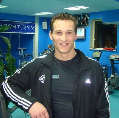 Octavian Gutu 2010